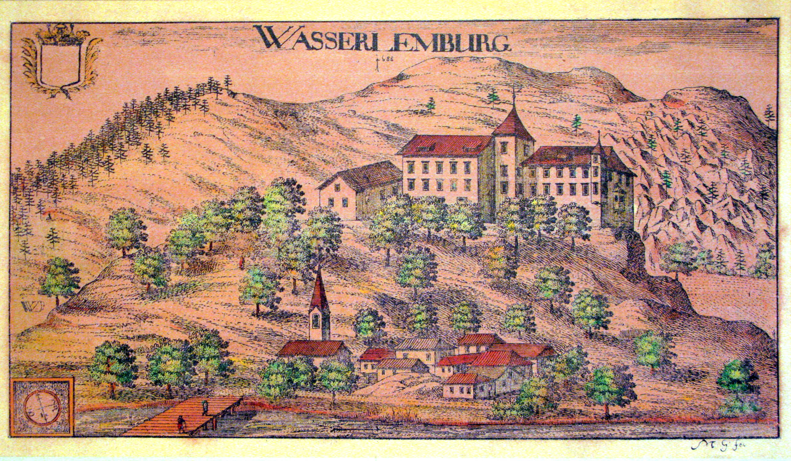 Wasserleonburg castle about 1688 near Nötsch im Gailtal in the south of Carinthia in Austria / European Union.